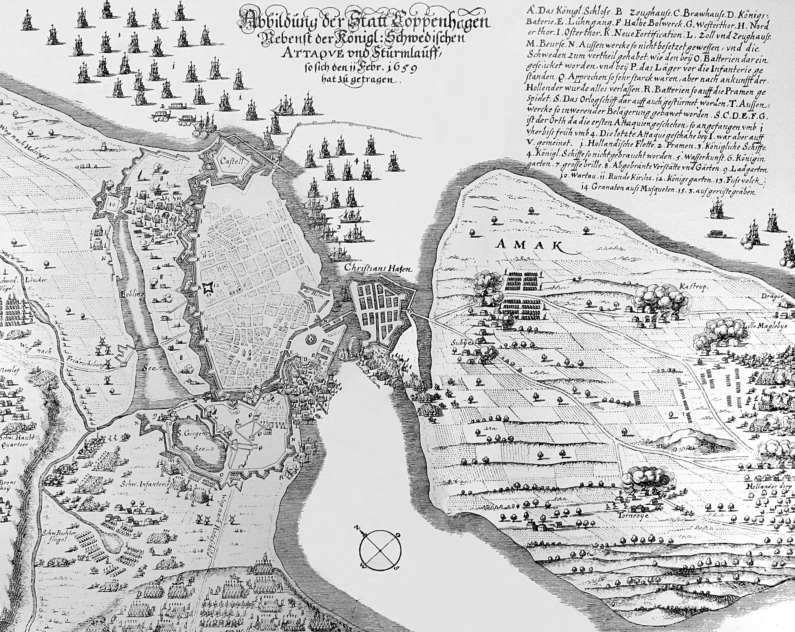 Illustration of the attack on Copenhagen, February 11th, 1659